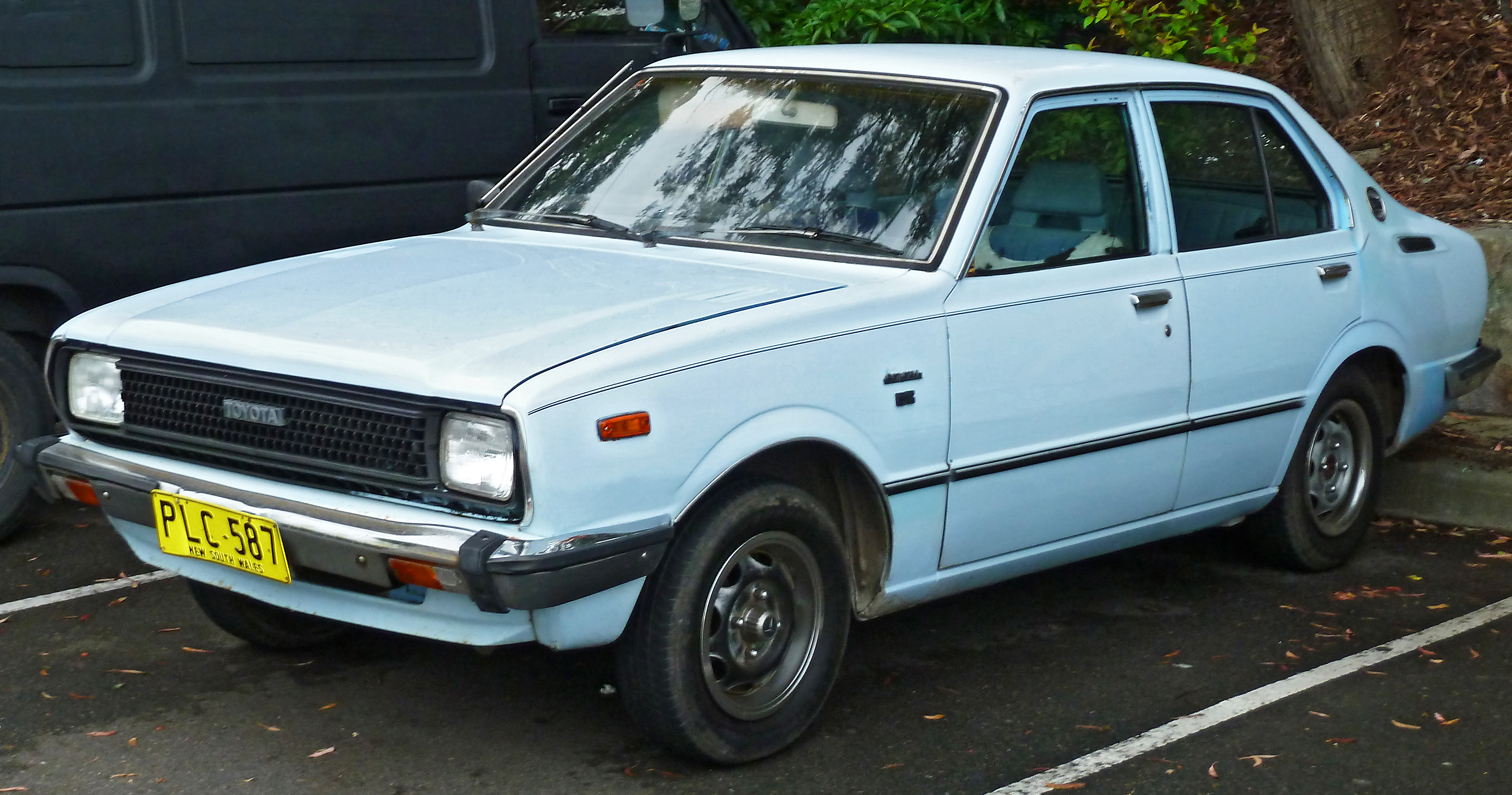 1981 Toyota Corolla (KE55R) CS sedan. Photographed in Kirrawee, New South Wales, Australia.